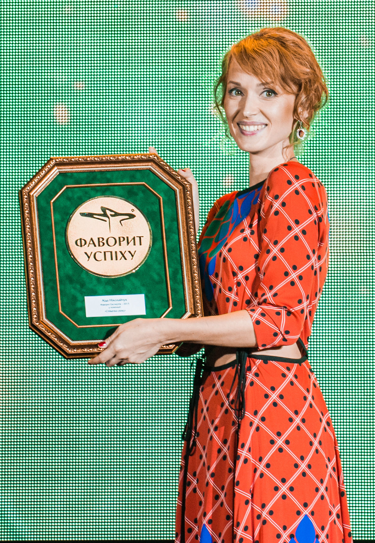 Aida Nikolaichuk was recognized by Internet audience as the best in the category "Singer of the Year - 2013" by the results of the national rating "Favorites of Success."